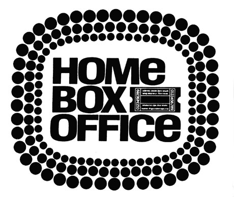 For the first four years of the network's existence, HBO identified itself with a still image of its original logo, a ticket stub and the channel's full name "Home Box Office" surrounded by a marquee light design.